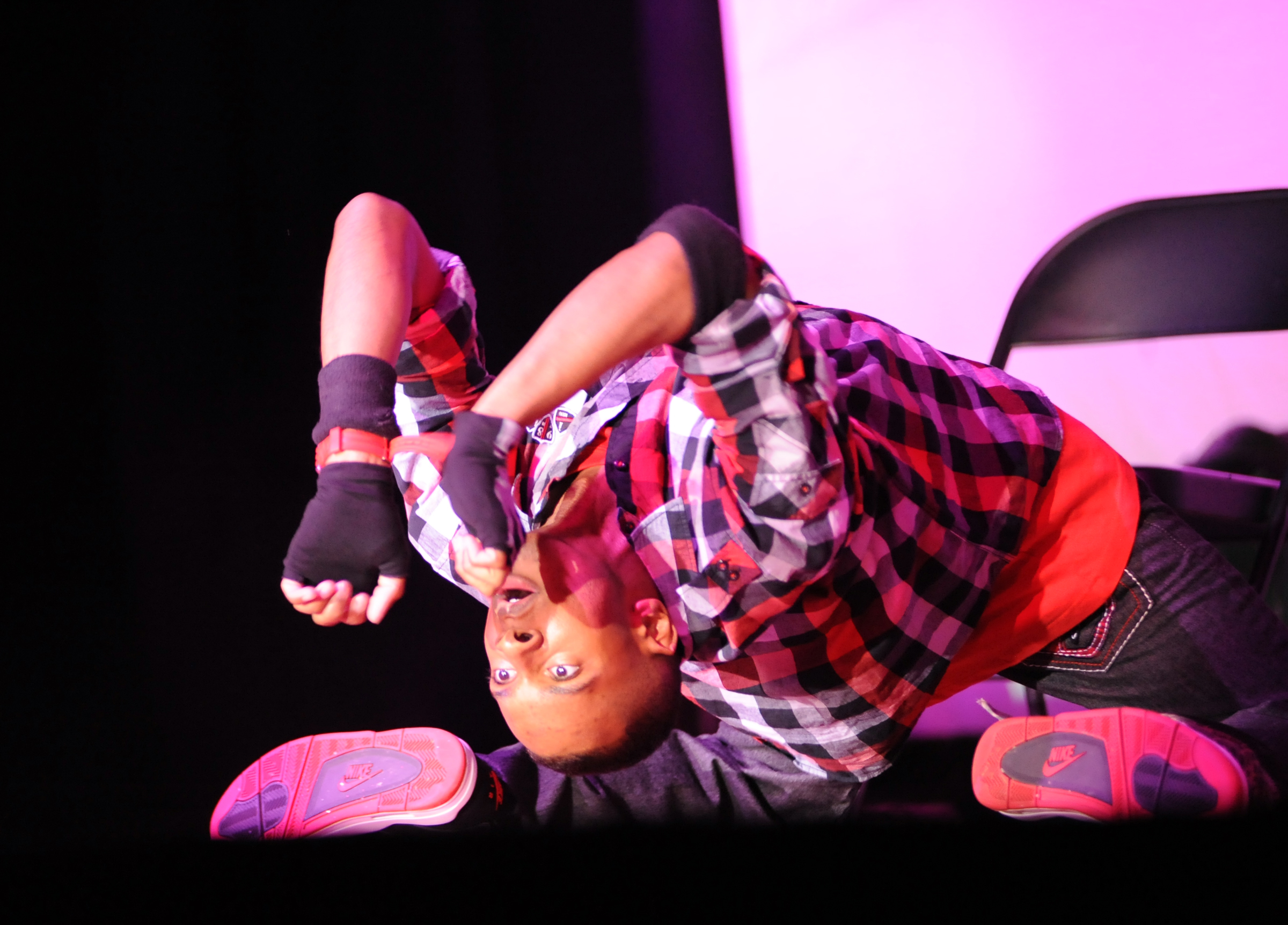 Hip-hop dancer Spc. Joseph Coine of Fort Campbell, Ky., exhibits great flexiblity while dancing to Mishon's "Distant Love" during live auditions for the 2011 U.S. Army Soldier Show at Wallace Theater on Fort Belvoir, Va. U.S. Army photo by Tim Hipps, FMWRC Public Affairs